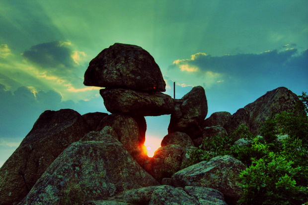 BuzovGrad_Megalith